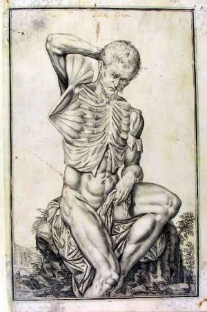 Casseri, Tabulae anatomicae, (S.l., s.t., 16..) - Biblioteca Universitaria Padova